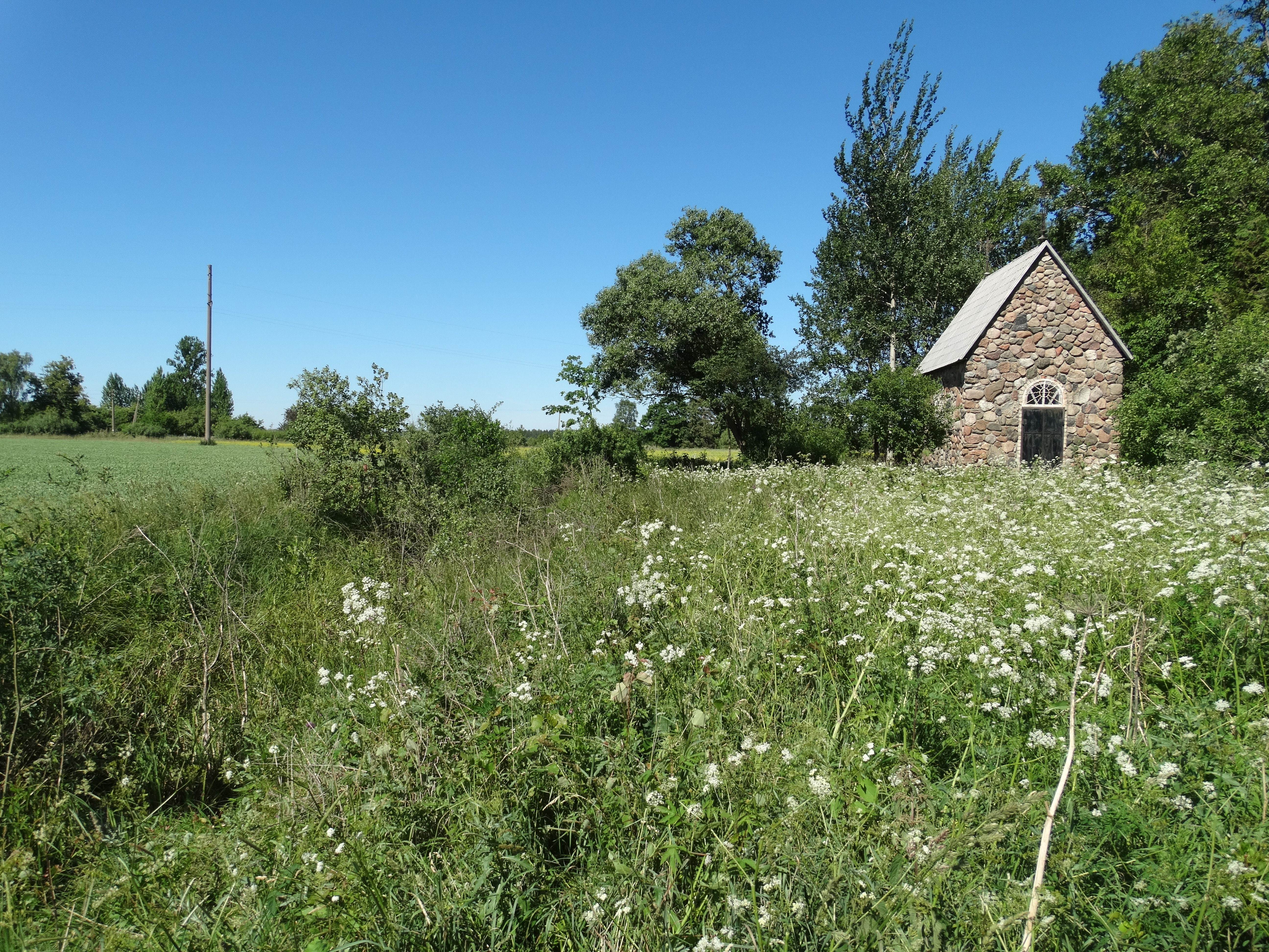 Chapel in Lepšiškė, Raseiniai District, Lithuania